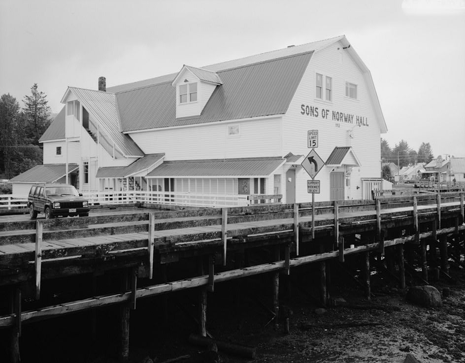 Northern side of the Sons of Norway Hall, located along Indian Street in Petersburg in the Petersburg Census Area of the U.S. state of Alaska. Built in 1912, the hall is listed on the National Register of Historic Places.